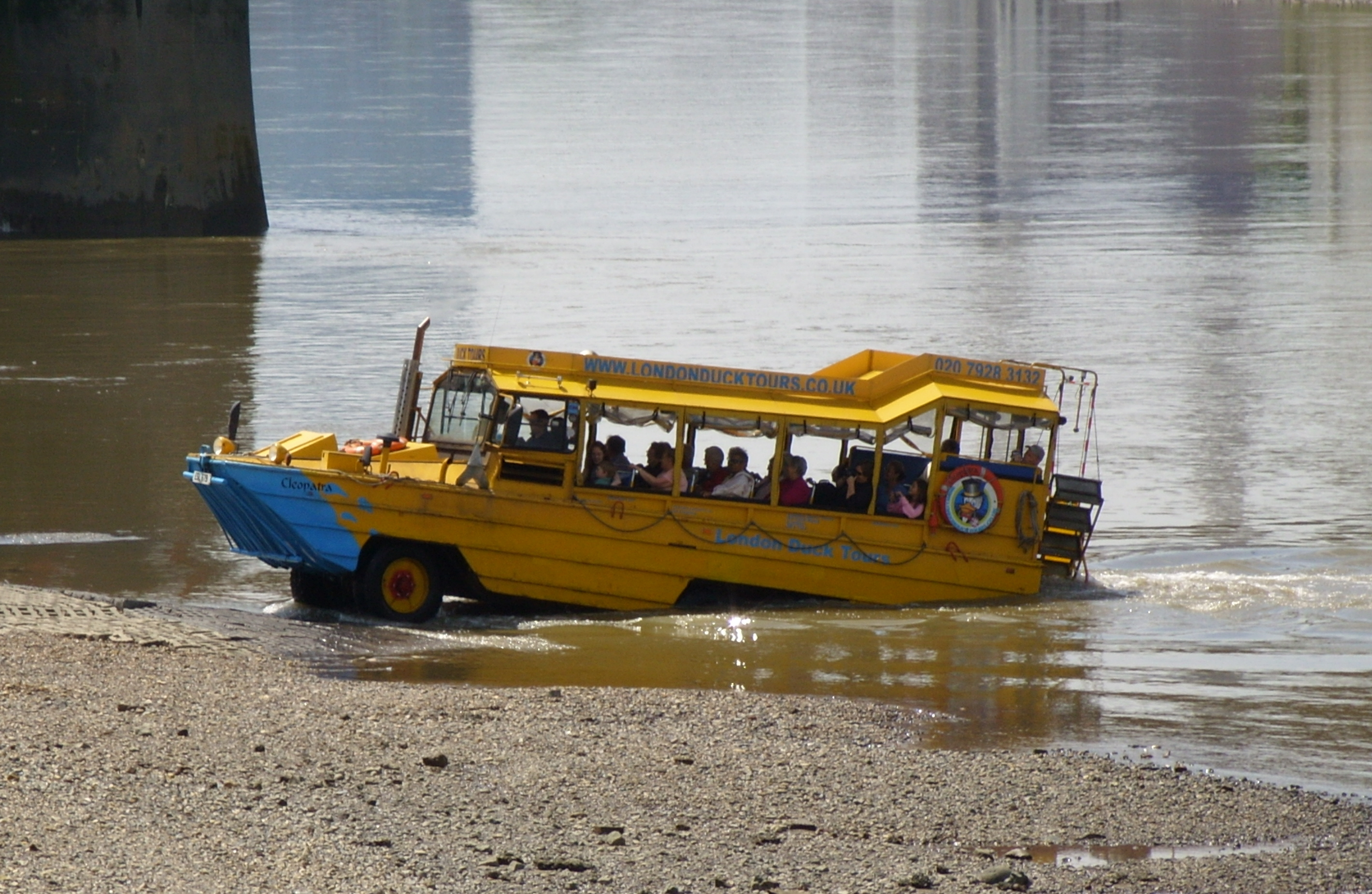 Converted DUK-W amphibious assault craft in use as a tourist bus, River Thames, Vauxhall, London 2007